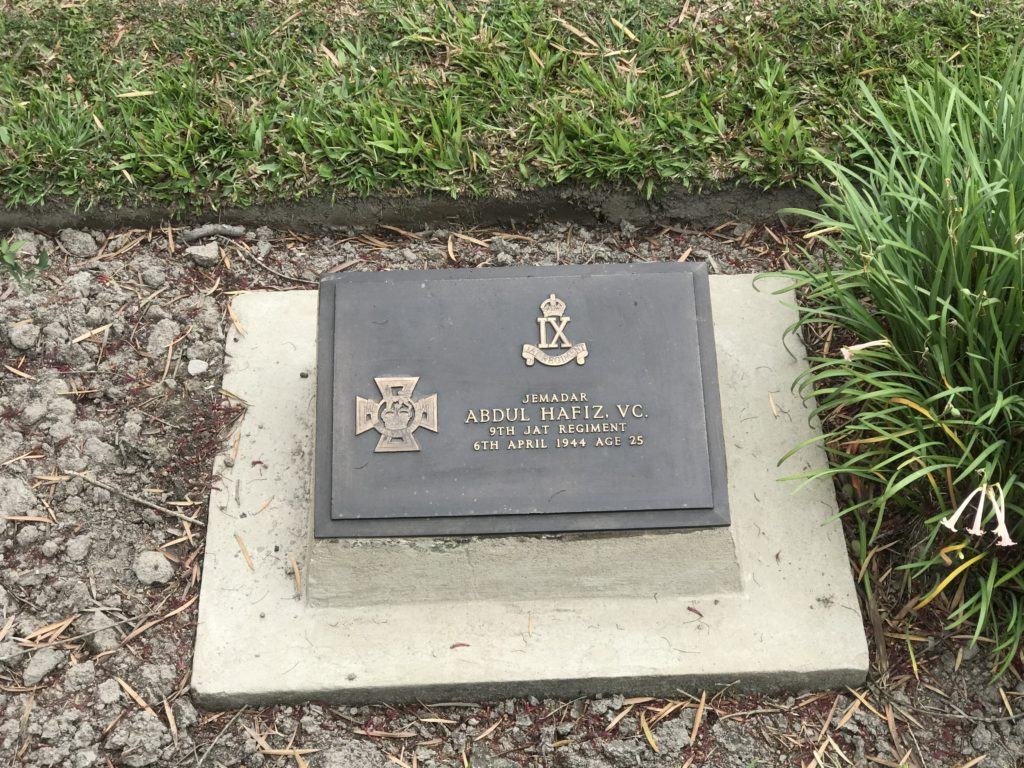 Grave of Jamadar Abdul Hafiz, Victoria Cross, 9 JAT Regiment